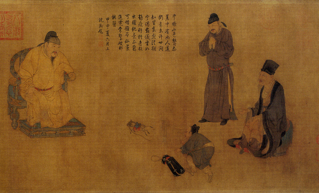 Zhang Guo Having an Audience with Emperor Tang Xuangzong (張果见明皇) (detail) Handscroll section, ink and color on silk. 41.5 x 107.3 cm. Located in Palace Museum, Beijing.